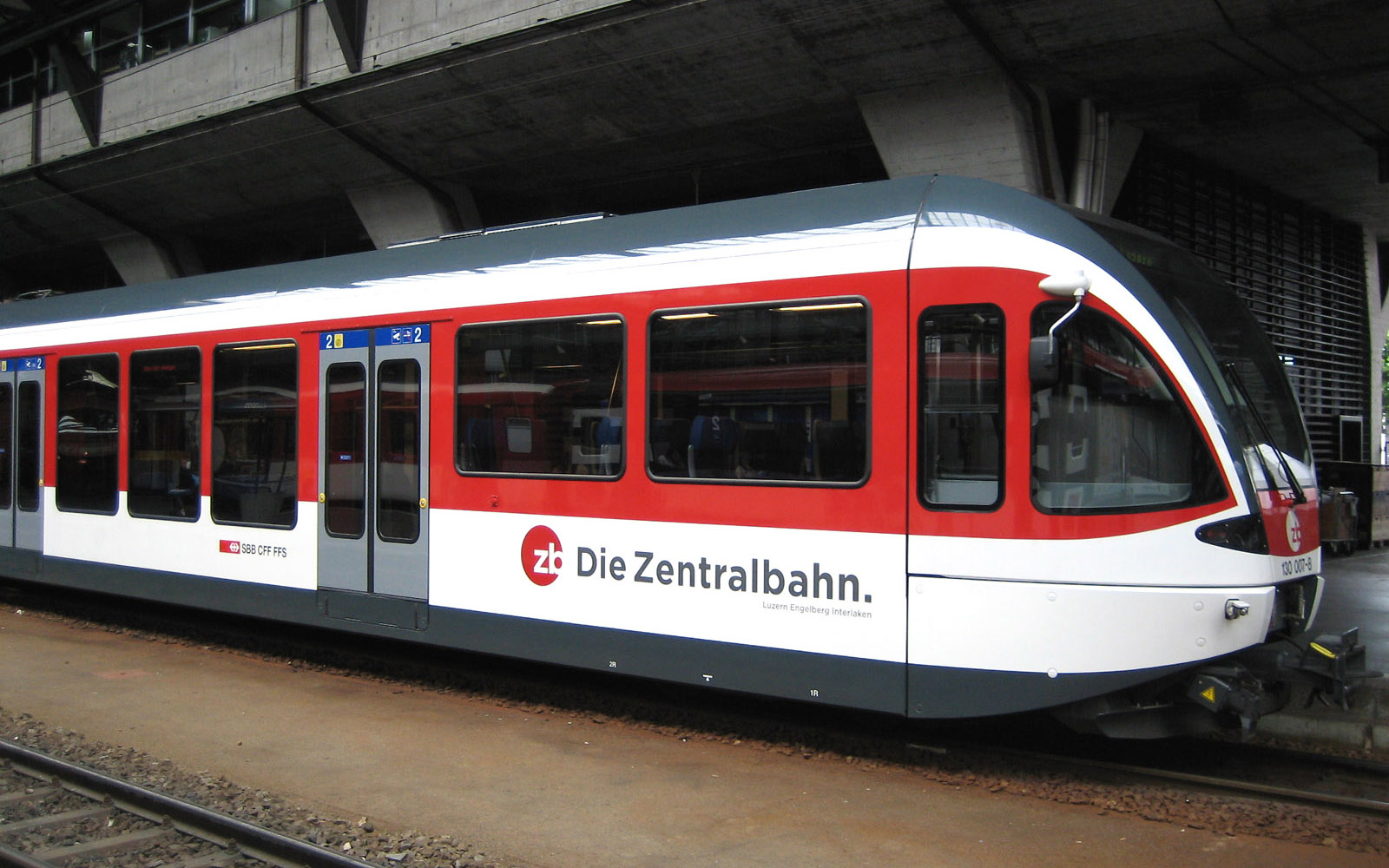 Stadler Rail SPATZ, custom made train for Zentralbahn